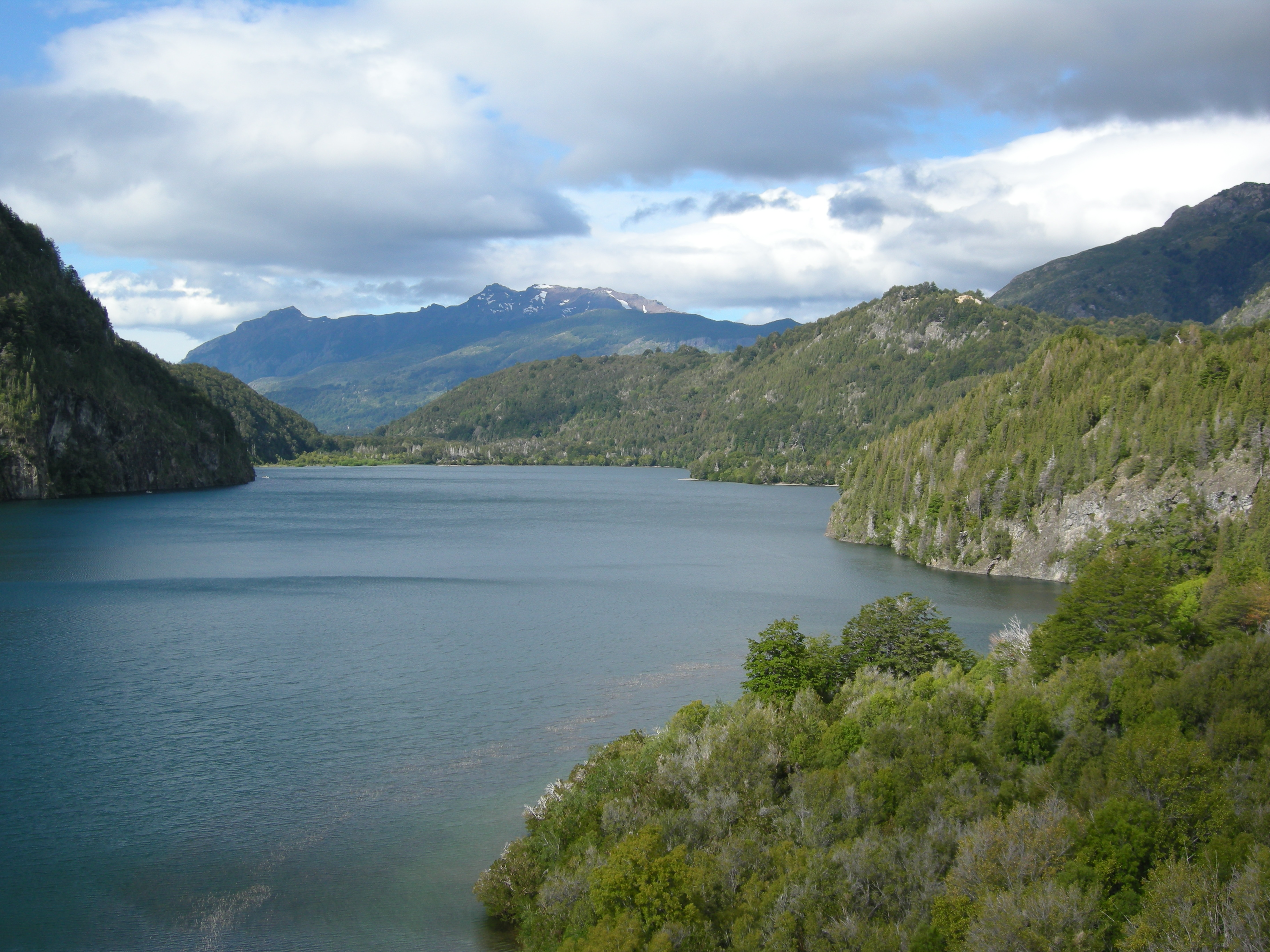 View of Lago Verde (green lake) and surrounding mountains in Los Alerces National Park, from the mirador Lago Verde (Chubut province, Argentina).